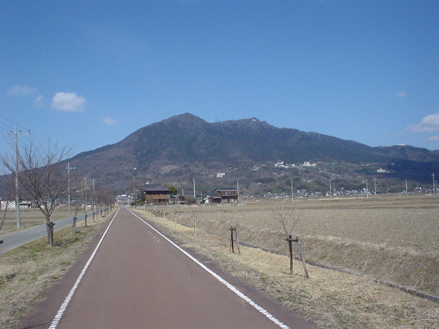 Mount Tsukuba as seen from the Ibaraki Prefectural Road Route 501 (Tsukuba Rinrin Road) in Tsukuba City